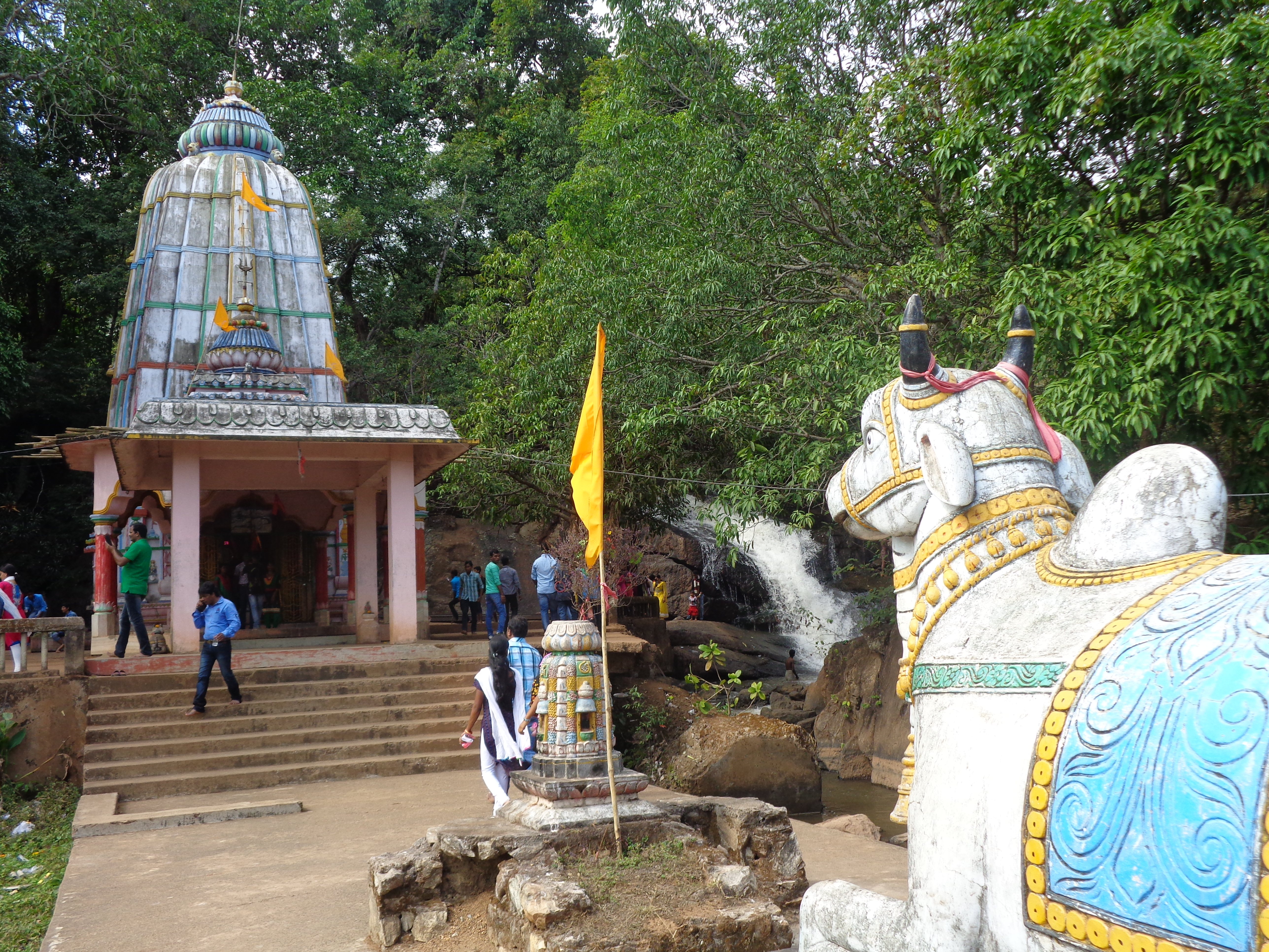 Lord shiv temple and water-fall at Chatikona, Rayagada